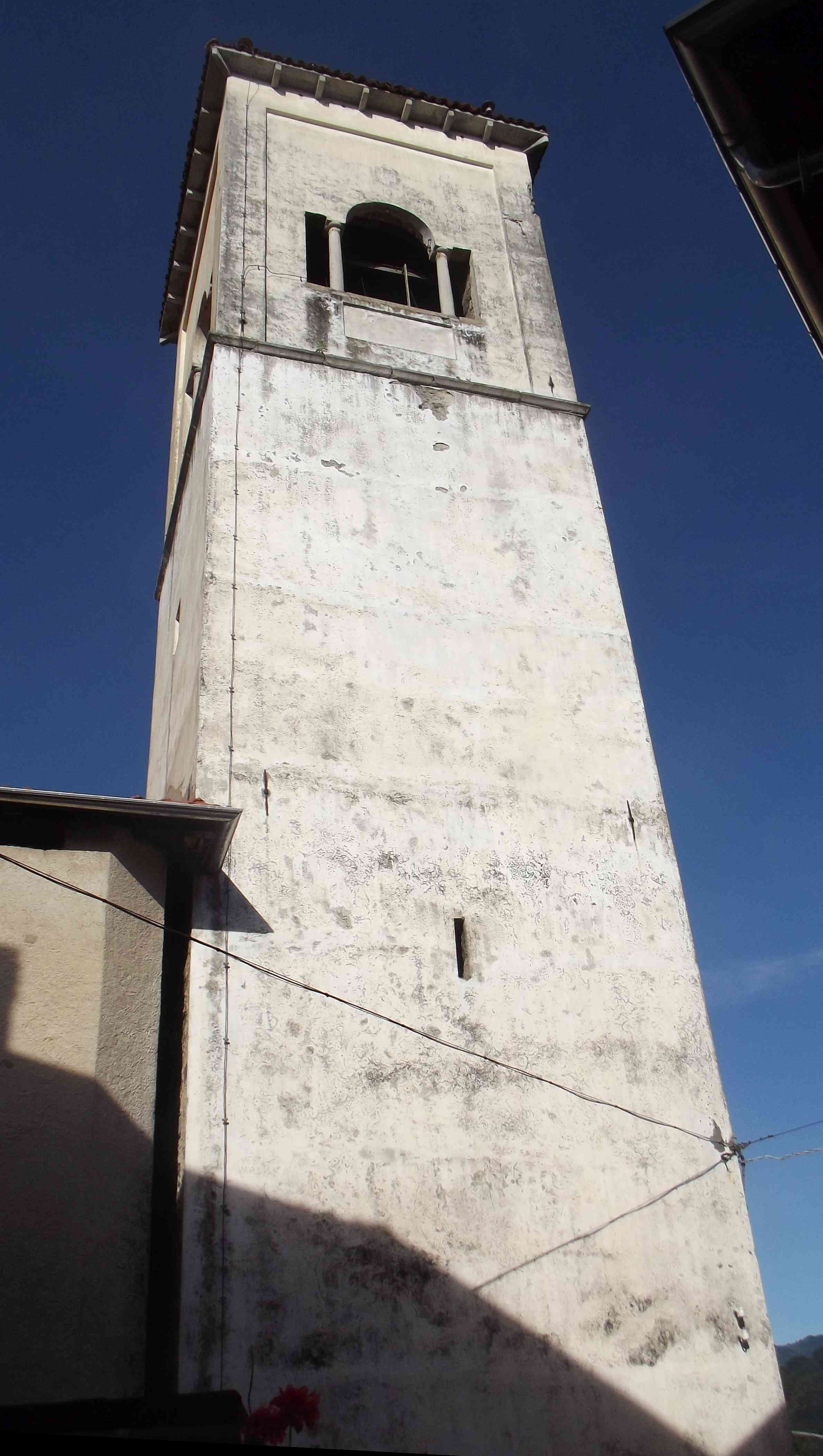 Pianceri (Pray, BI, Italy): bell tower of the parish church